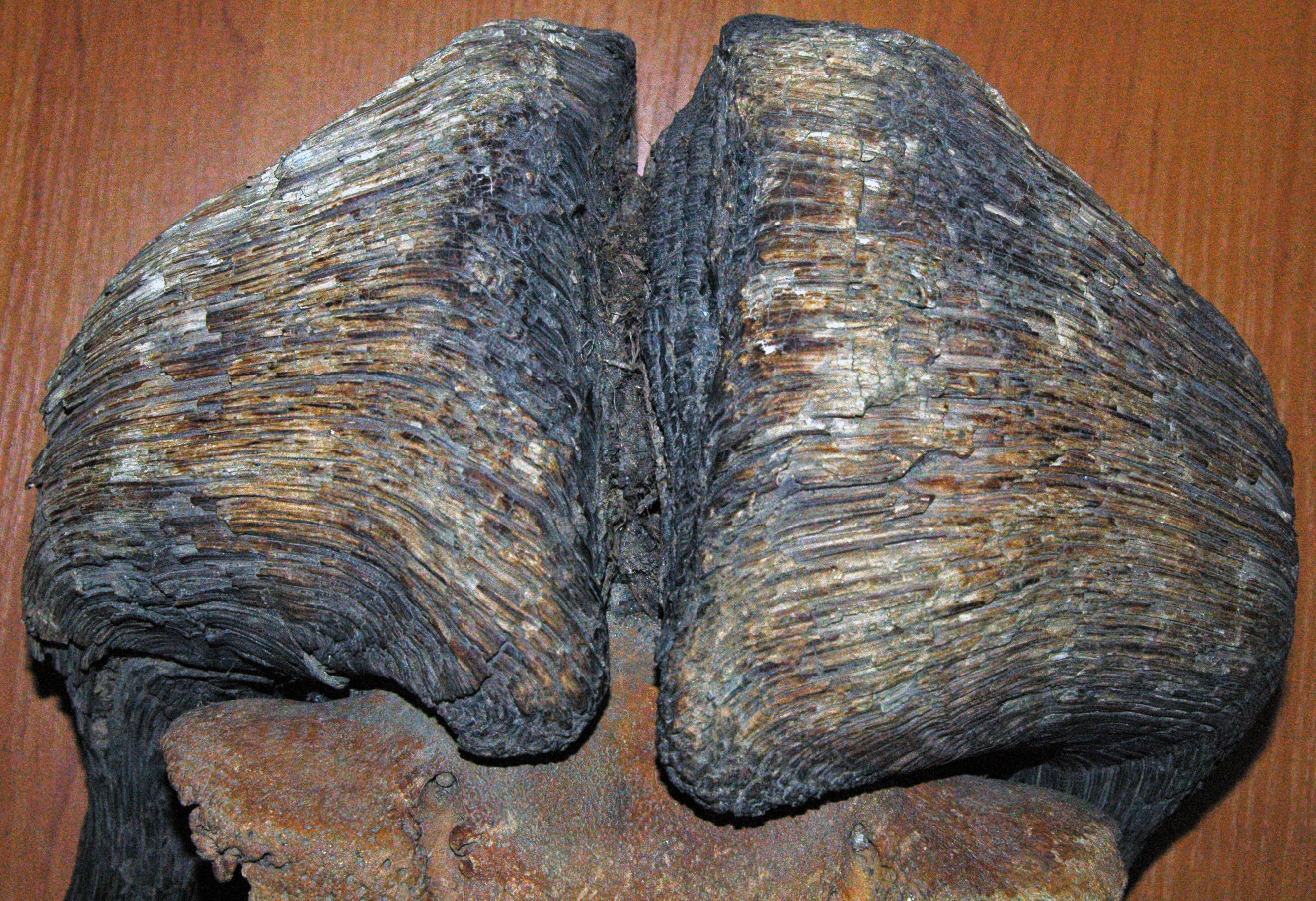 Ovibos moschatus Blainville, 1816 - fossil musk ox skull from Siberia, Russia. (public display, Yakutsk Public Unified Museum of History & Northern Folk Culture, Yakutsk, Siberia, Russia) This is a partial skull of a prehistoric specimen of the Arctic musk ox, Ovibos moschatus. The species is still alive today, living at high latitudes in North America. During the Pleistocene Ice Age, the species also occurred at high latitudes in northern Asia. Classification: Animalia, Chordata, Vertebrata, Mammalia, Artiodactyla, Bovidae See info. at